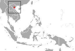 Delacour's Langur (Trachypithecus delacouri) range